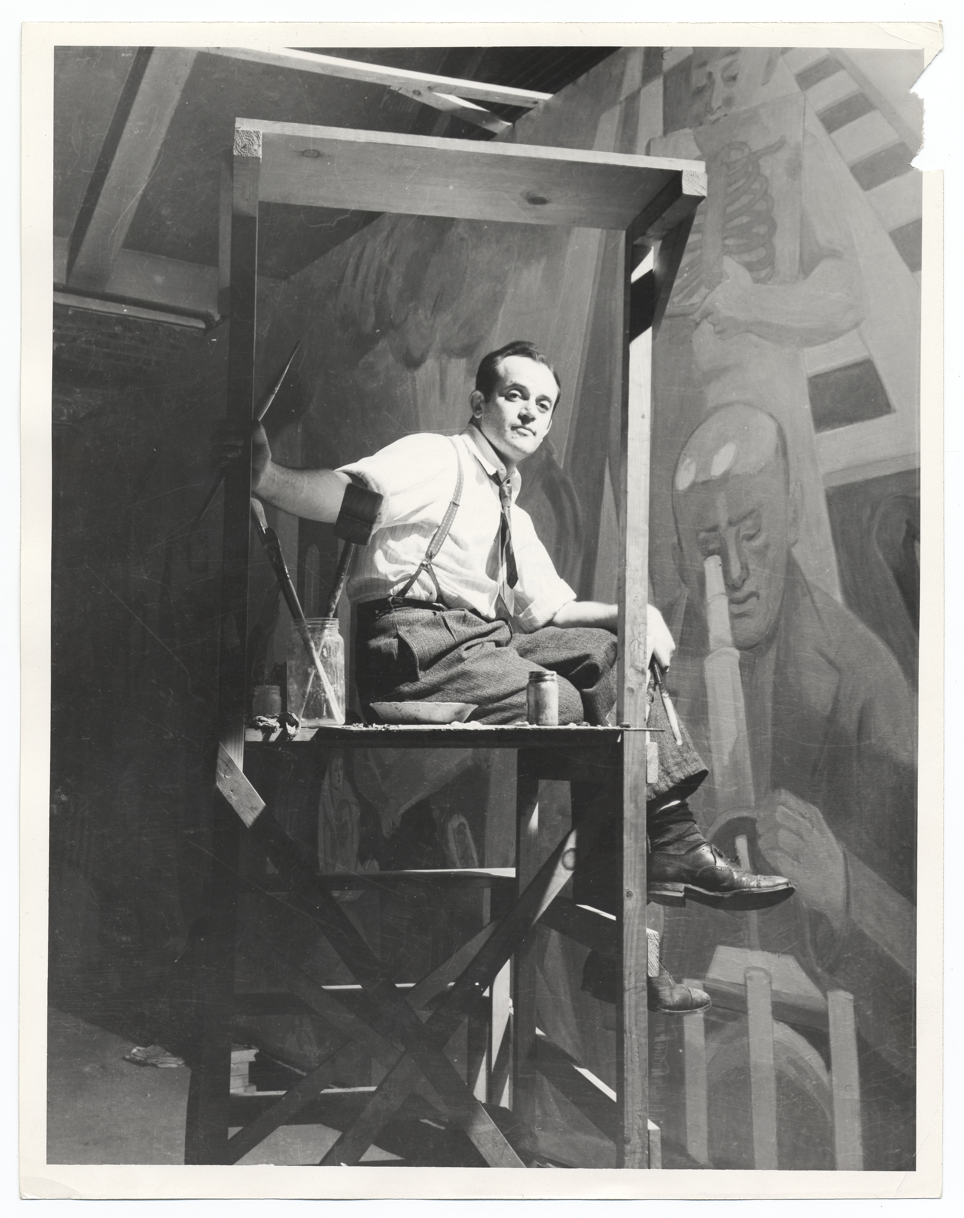 Identification on verso (handwritten and stamped): New York City W.P.A.; Photographic Division; 110 King Street; New York City Neg. No.: 3563B58; Photographer: Robbins; Date: May 1939; Title: Anton Lishinsky at work.